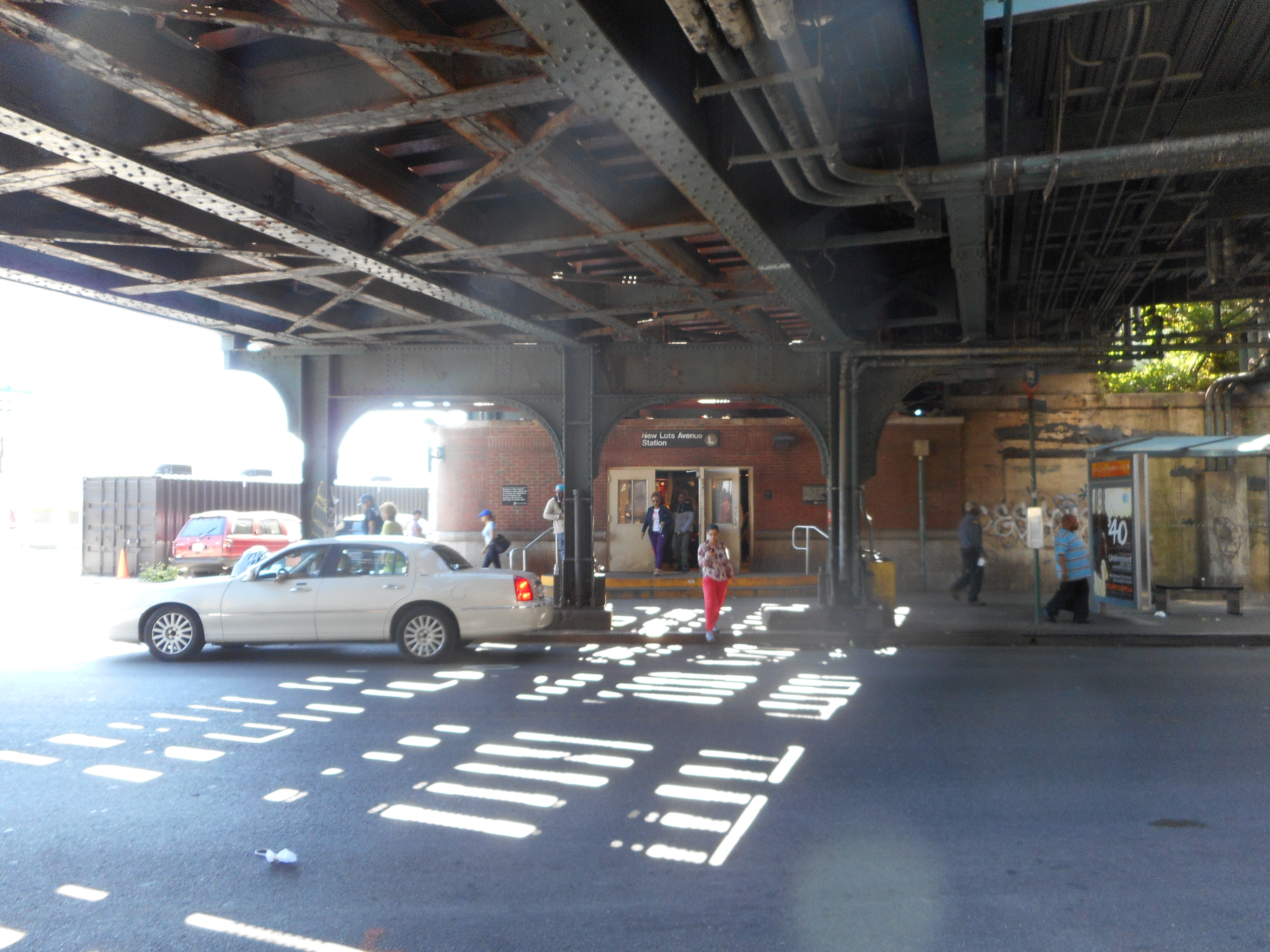 The entrance to the New Lots Avenue (BMT Canarsie Line) subway station from under the eastbound sidewalk of New Lots Avenue under a bridge for the BMT Canarsie Line in the East New York section of Brooklyn, New York City. Note also the bus shelter on the right.